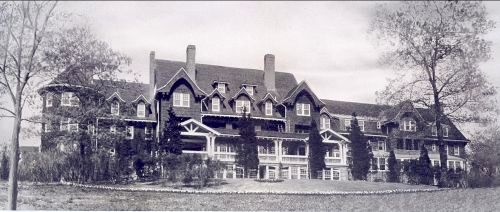 The Belle Terre Club, a historical private club in Belle Terre, New York that lasted from the first decade of the 20th century until its destruction in a 1934 fire.